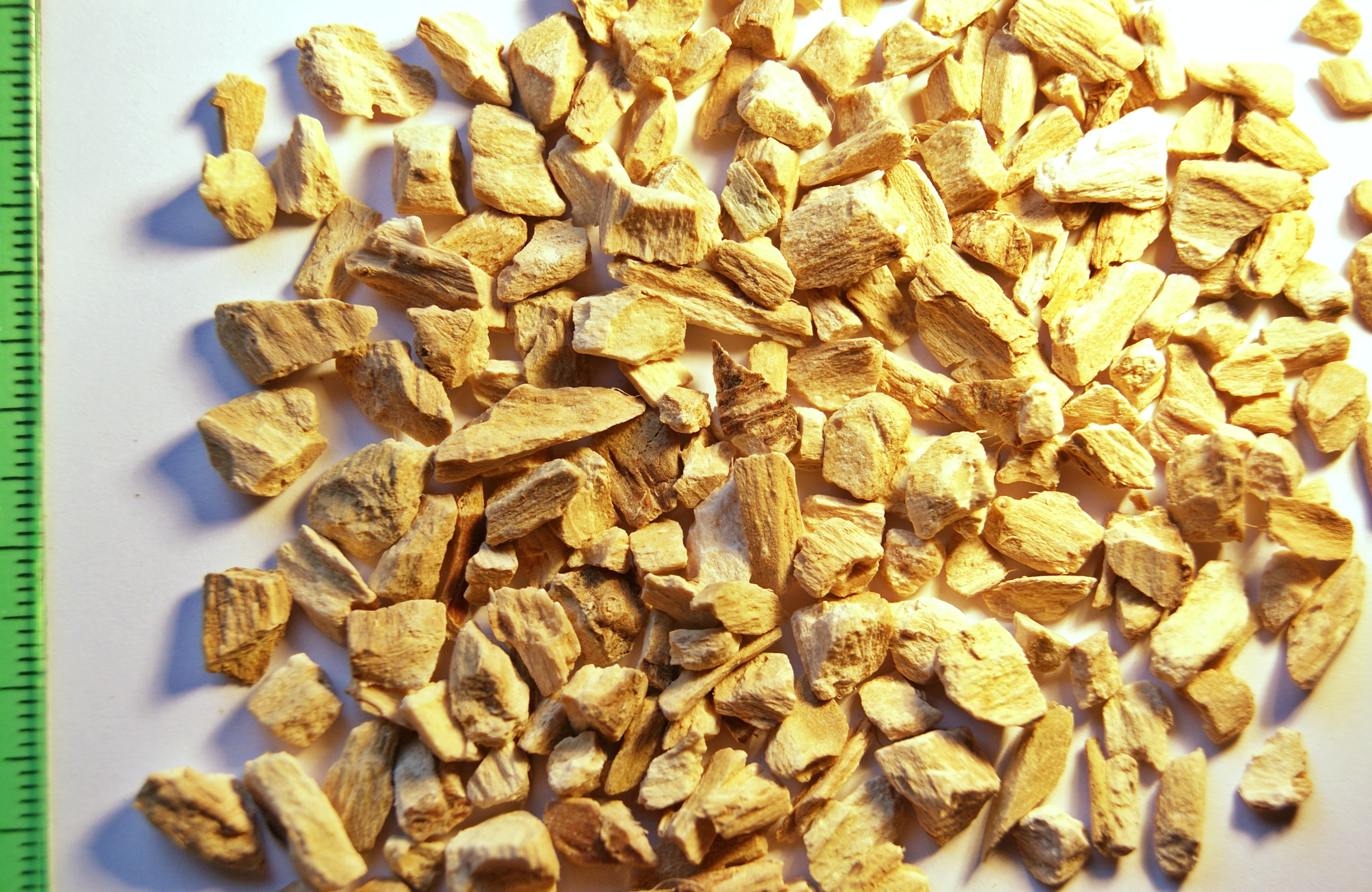 Acorus calamus